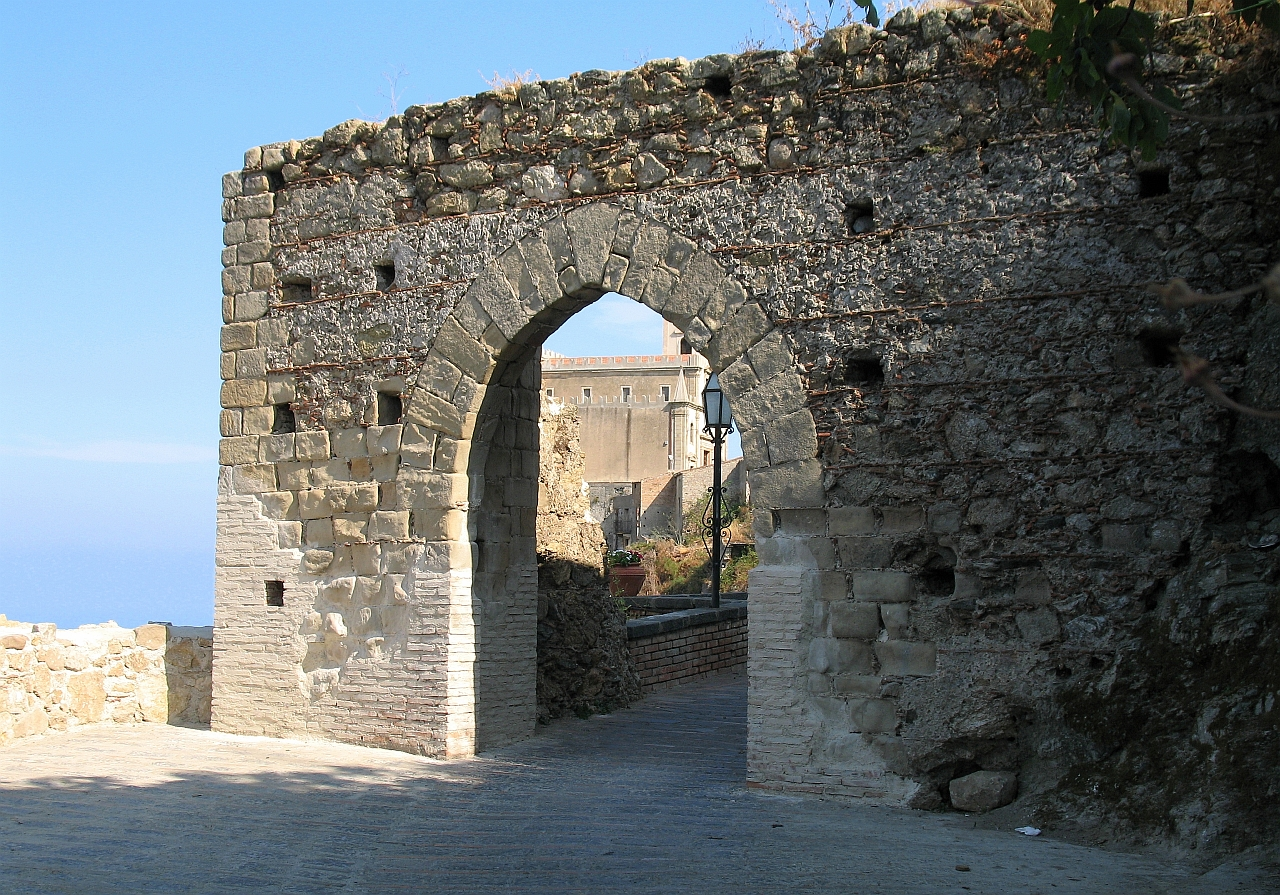 Savoca